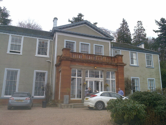 Ballindean House - the home of Teen Ranch